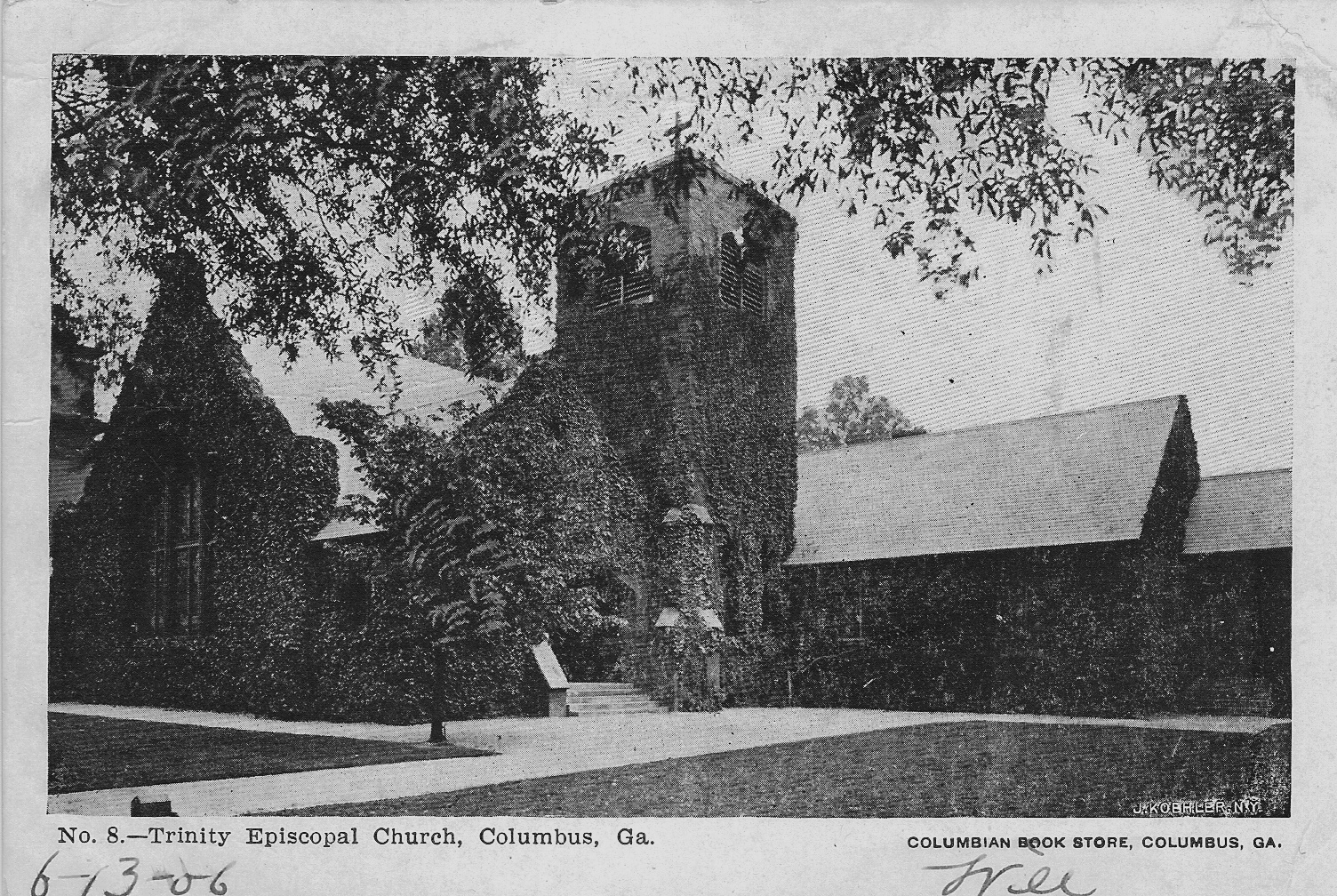 A 1906 view of Trinity Episcopal Church in Columbus, Georgia. The building was completed in 1891 and is still used today into the 21st century.